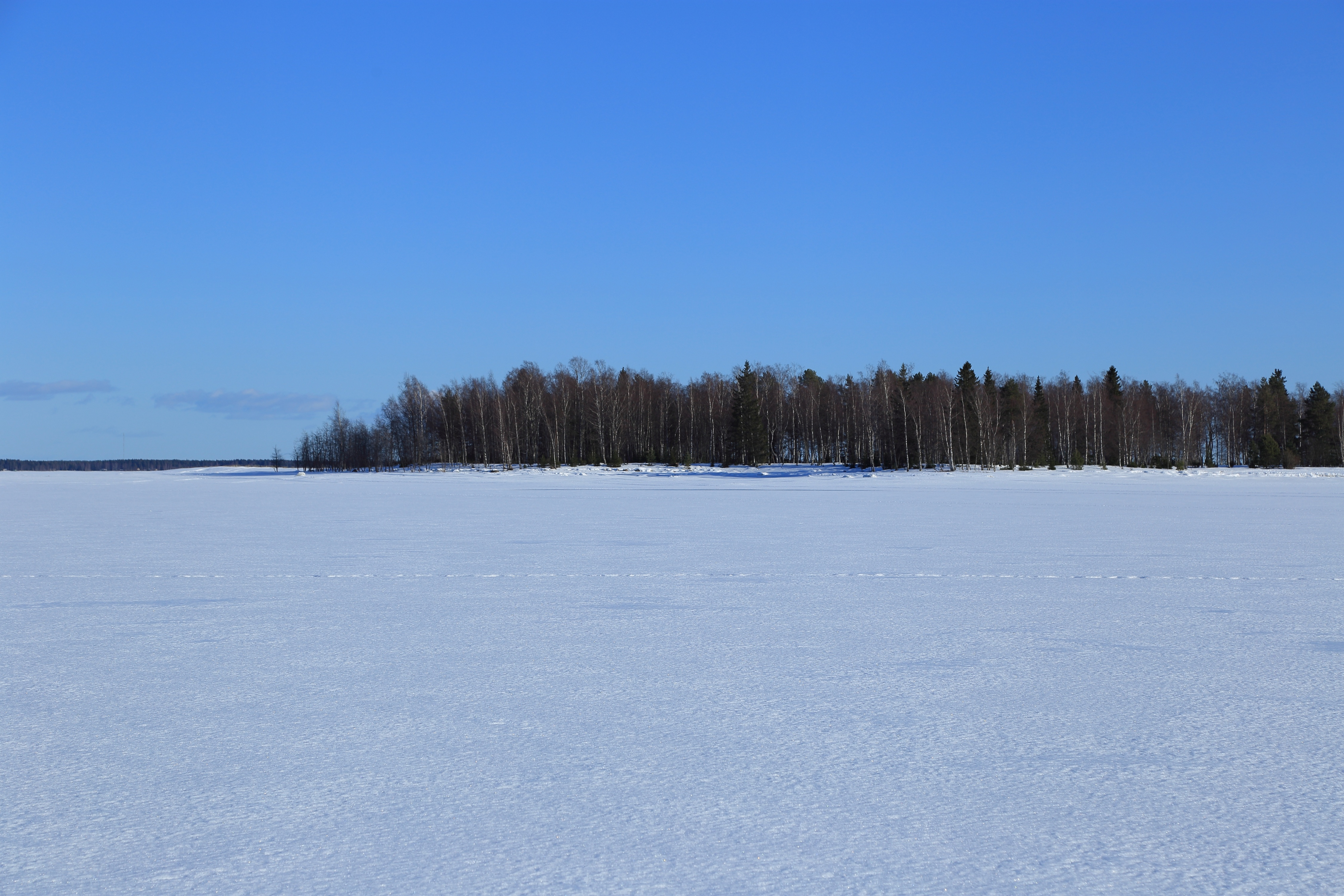 The Satakari island in Ii, Finland.